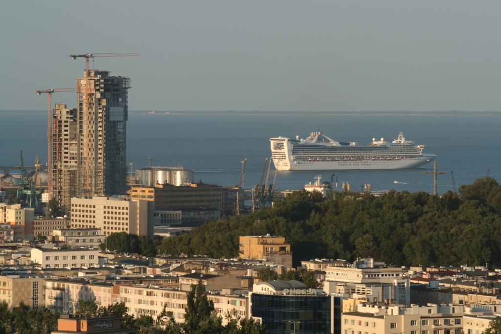 widok na Sea Towers i Star Princess